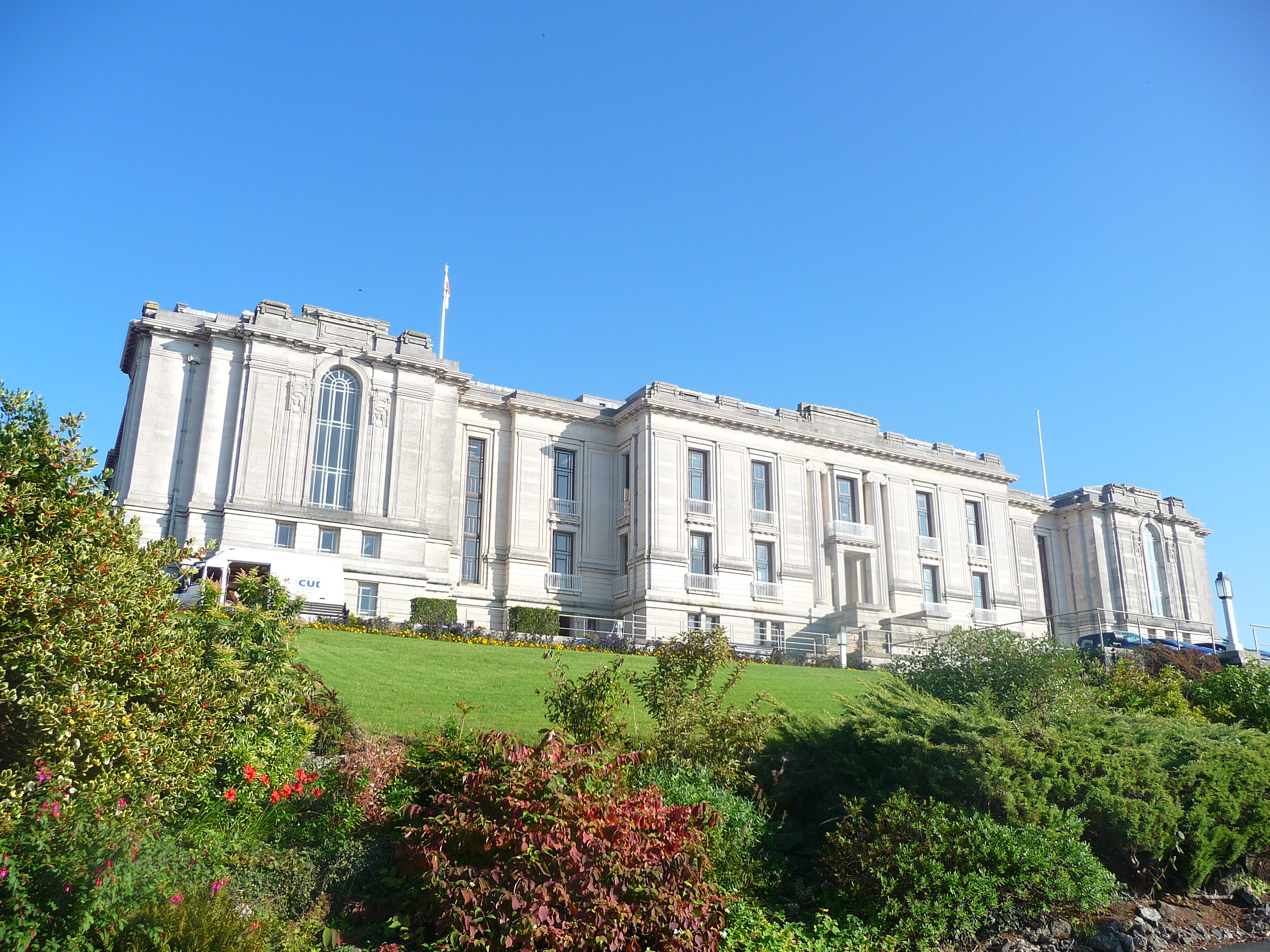 National Library of Wales, Aberystwyth, Wales.